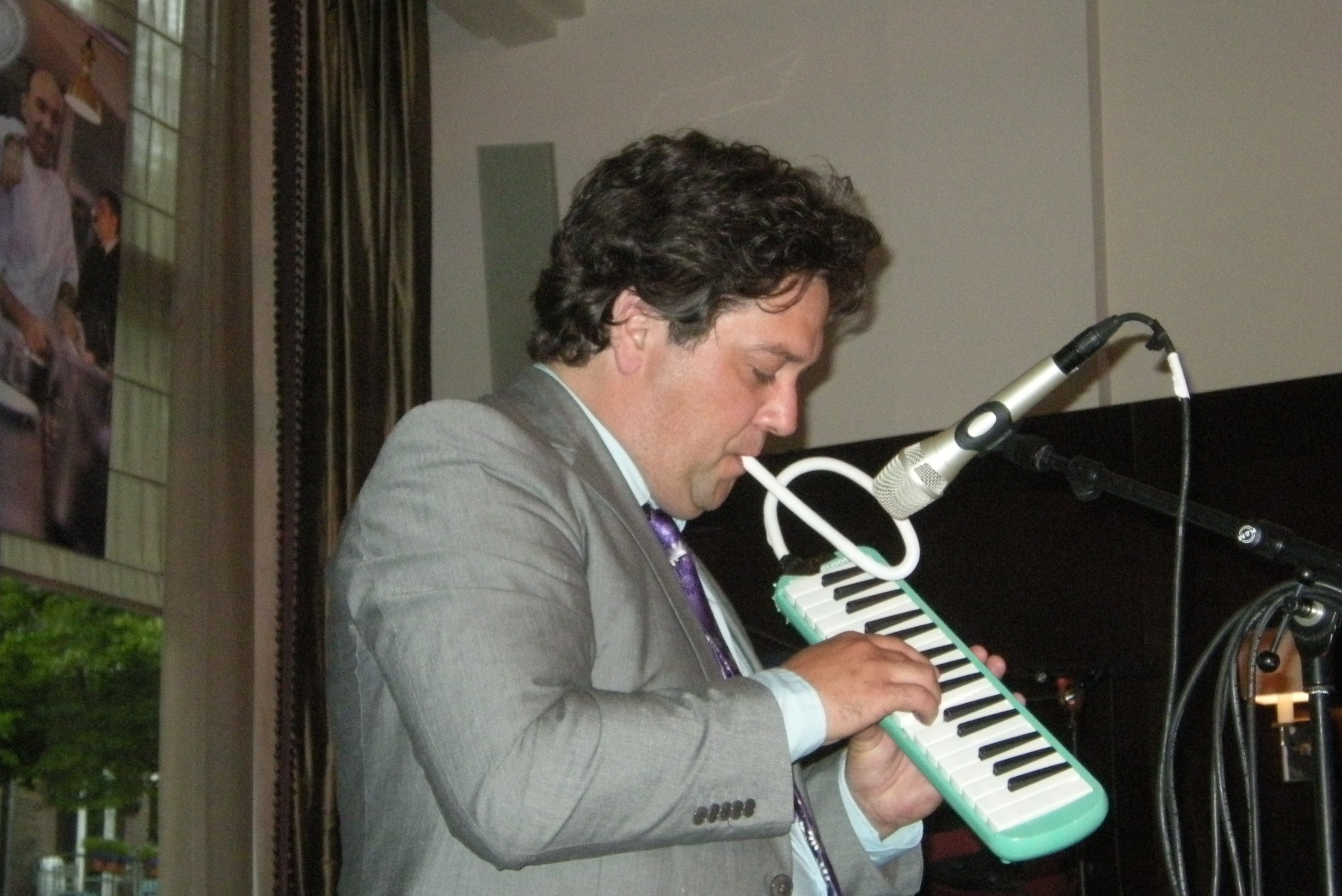 Mike Boddé plays the melodica.